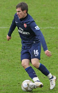 Stoke City FC V Arsenal 66